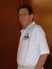 Jonathan Gleich at 200 lbs (91 kg)